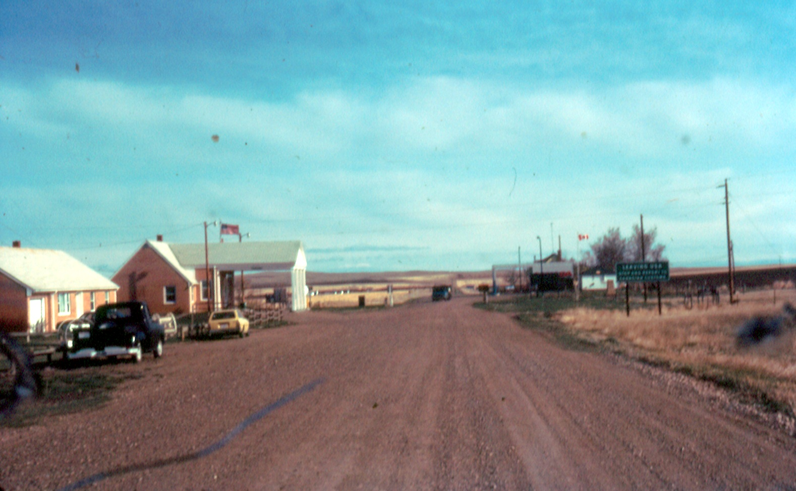 Looking North from Morgan, Montana at US - Canada Border Crossing near Val Marie, Sask.